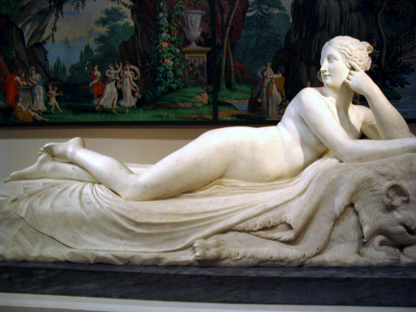 Naiad by Antonio Canova, Metropolitan, NY.